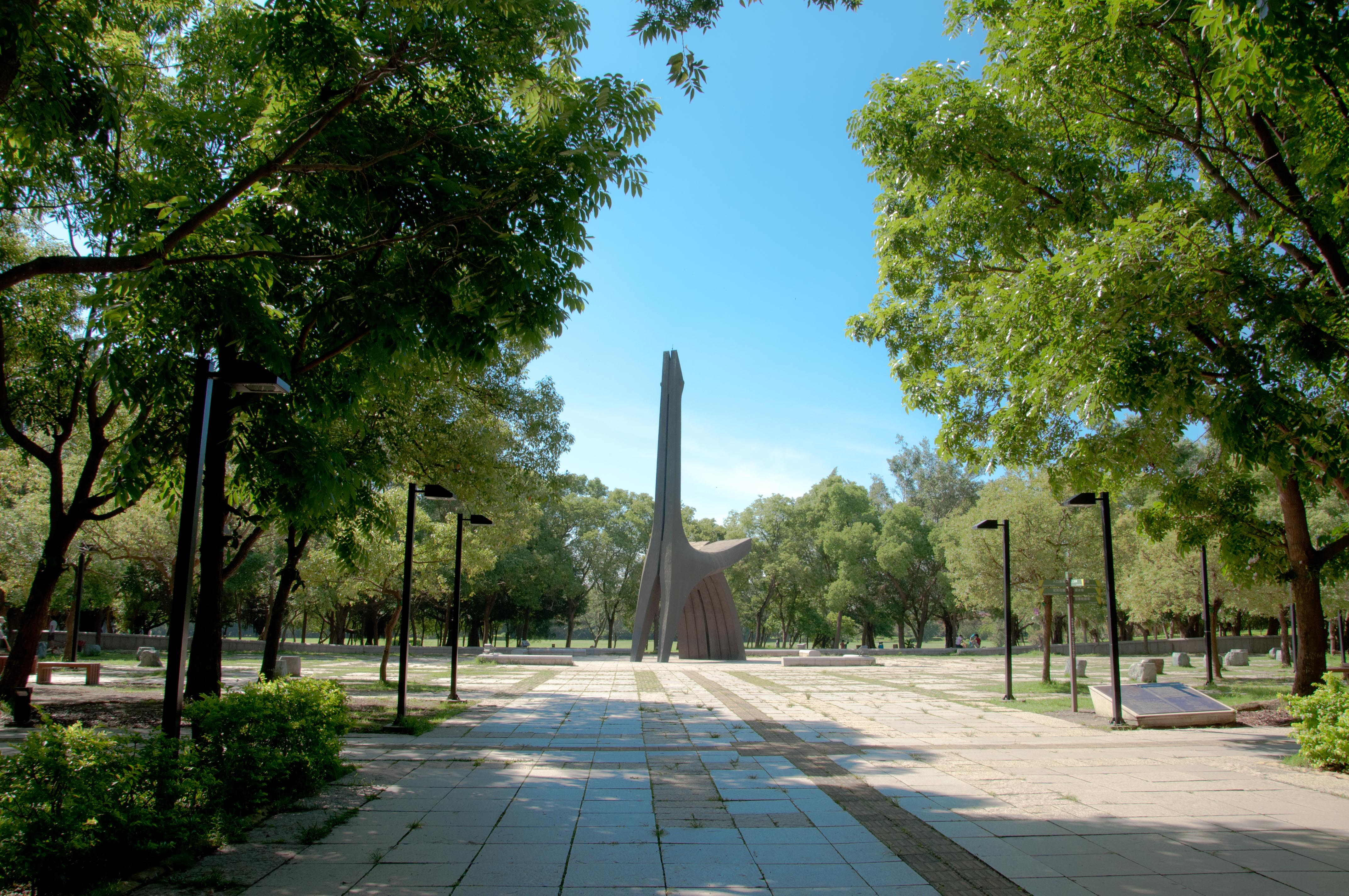 Kaohsiung_Metropolitan_Park